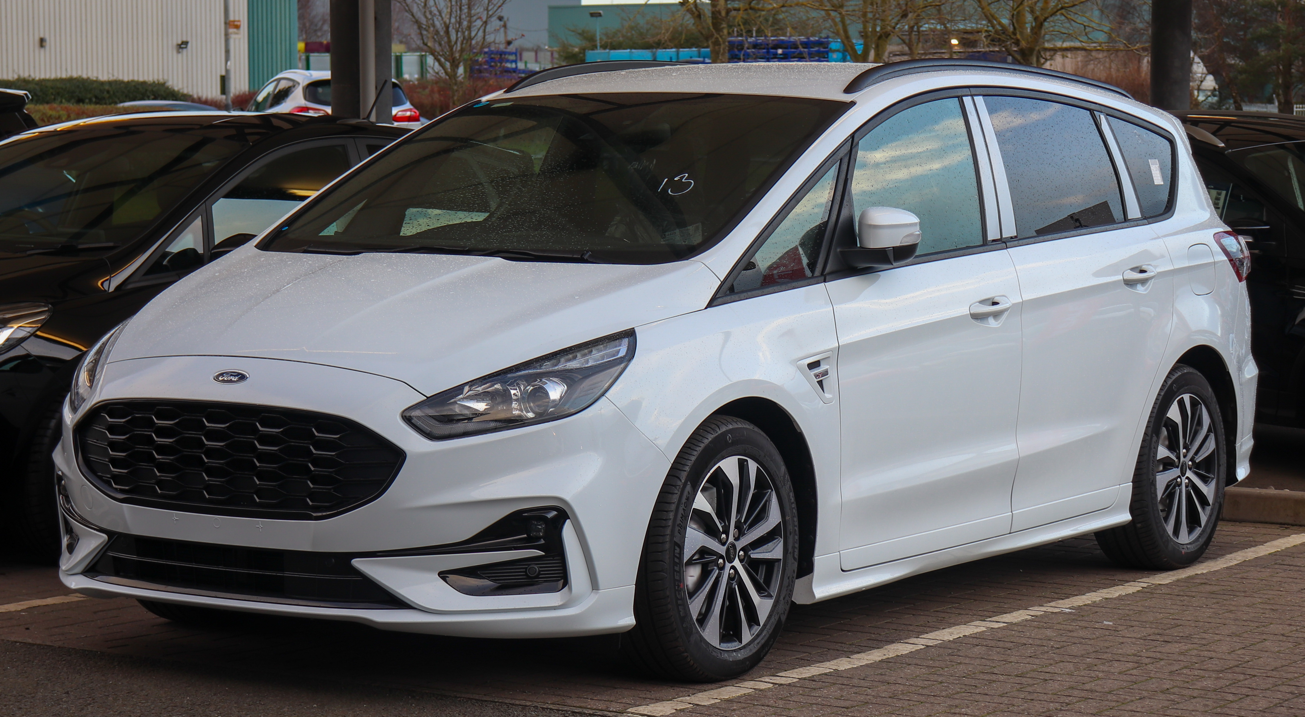 2020 Ford S-Max ST-Line facelift Front Taken in Leamington Spa